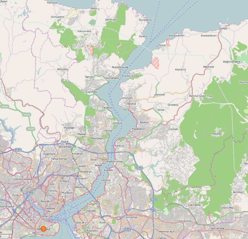 Third bridge on Bosphorus, location.